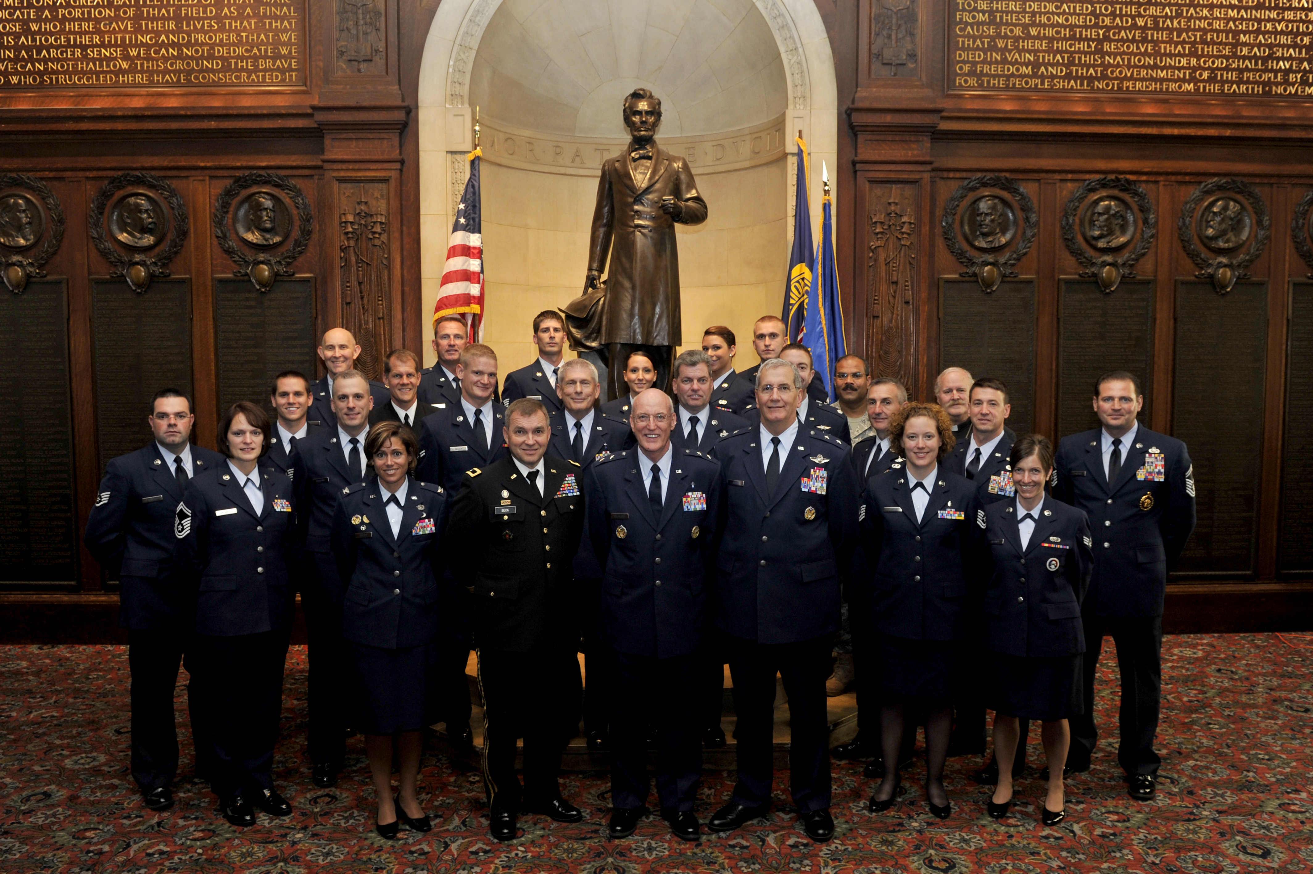 "Union League of Philadelphia Celebrates the 63rd Birthday of the USAF," The Armed Services Council of the Union League of Philadelphia celebrates the 63rd birthday of the United States Air Force, Sep. 15, 2010.